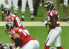 Jason Rader, Tyson Clabo and Jerious Norwood; If used somewhere other than Wikipedia, Nelson, by name.